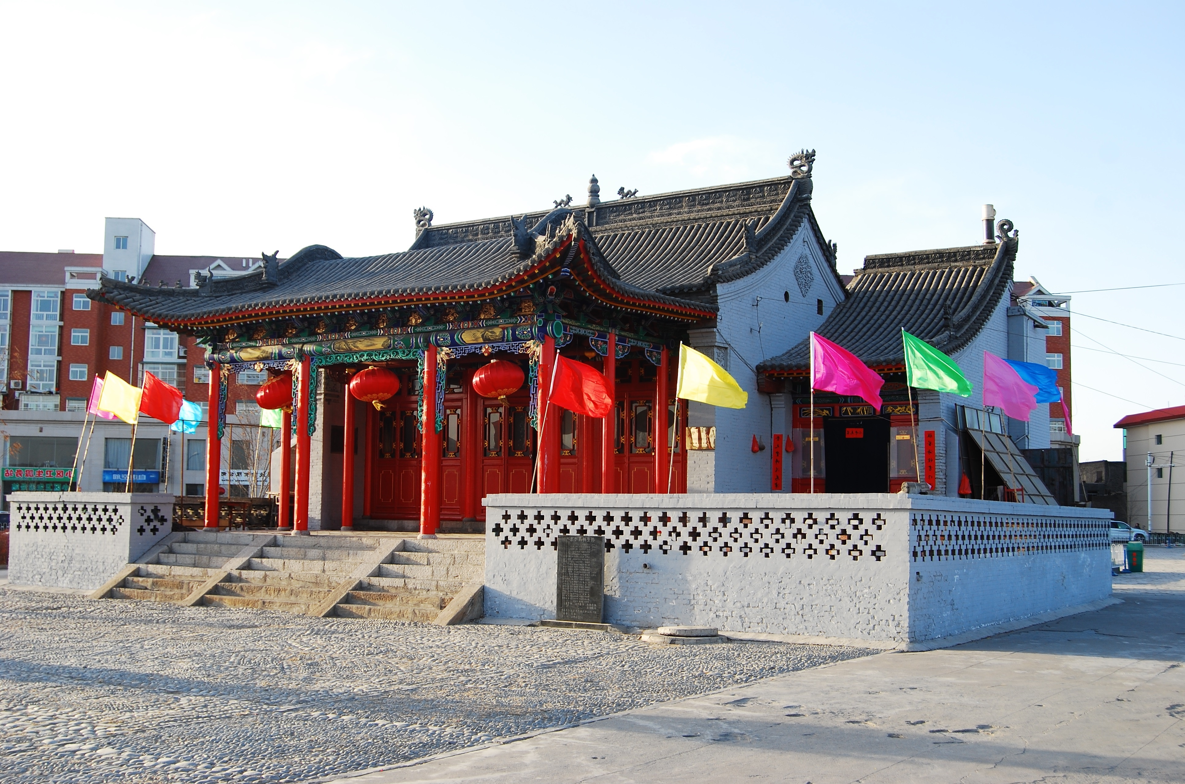 Hall of the Temple of Heshen, the River God (河神庙 Heshenmiao) in Hequ, Xinzhou, Shanxi, China.